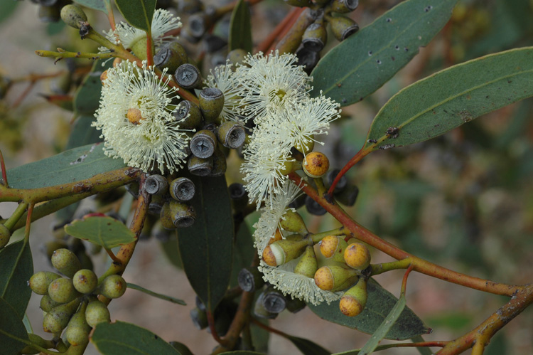 Foliage, flowers, buds and fruit of Eucalyptus argutifolia in the Waite Arboretum, Adelaide, South Australia